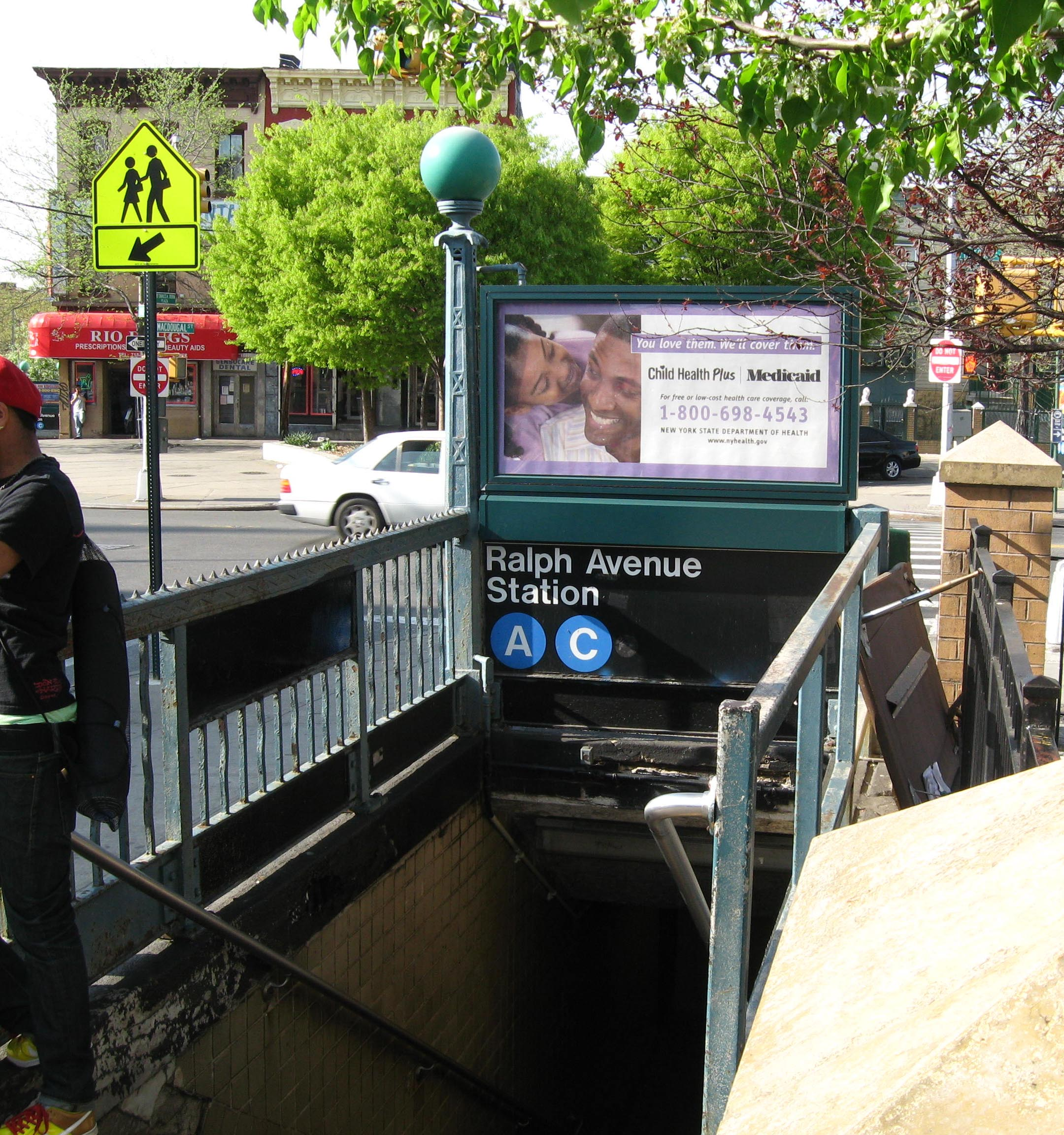 Looking north along Ralph Avenue at Ralph Avenue (IND Fulton Street Line) station of Fulton Street line and across to the foot of MacDougal Street, in Ocean Hill, Brooklyn on a sunny springtime afternoon. ZIP Code 11233.